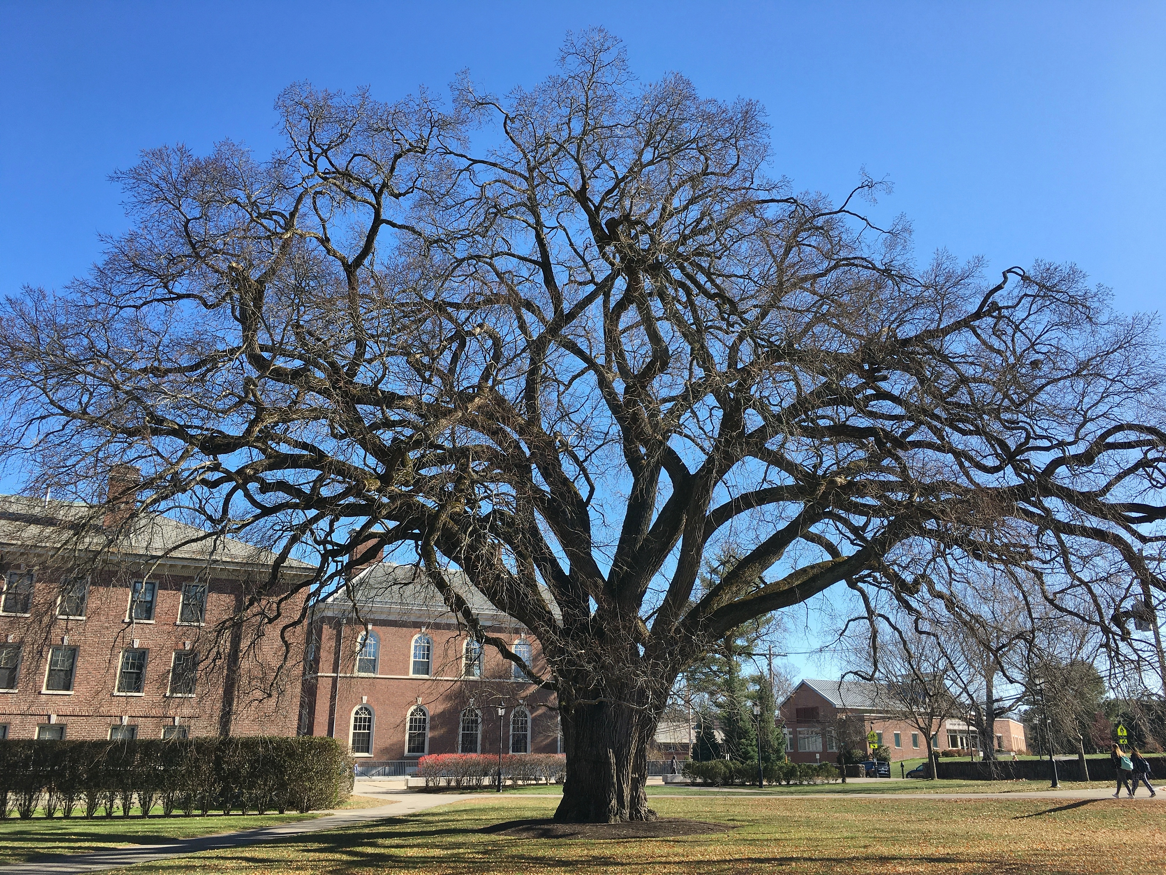 Photograph of American elm tree located at Phillips Academy in Andover, Massachusetts. Phillips Academy was founded in 1778 and the tree is estimated to be over 200 years old. Tree measurements as of November 2019: circumference of 21 feet; spread over 100 feet; height estimated at 65 feet.